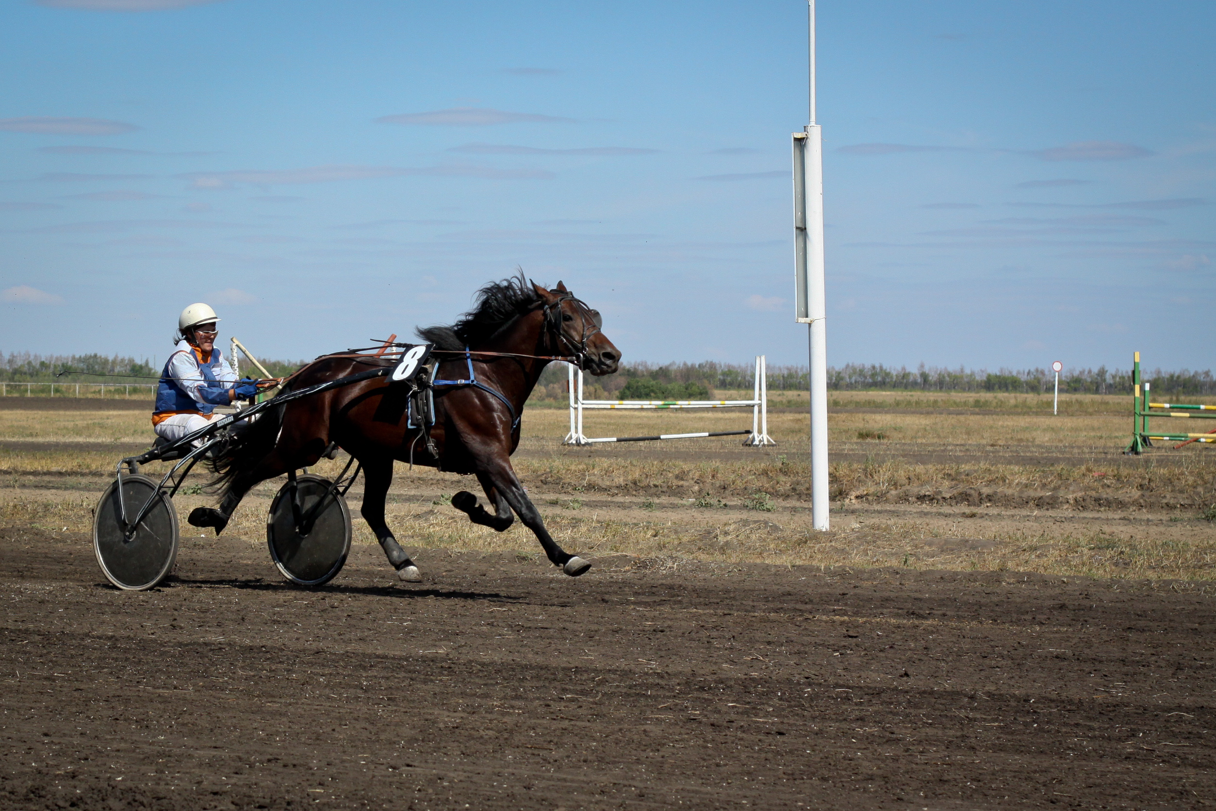 The Orlov Trotter (also known as Orlov